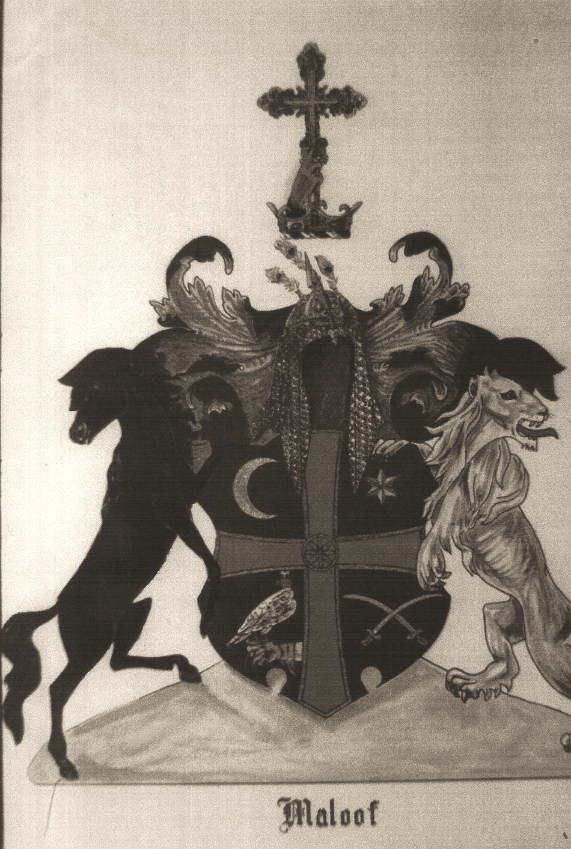 Coat of arms for the Maalouf family.